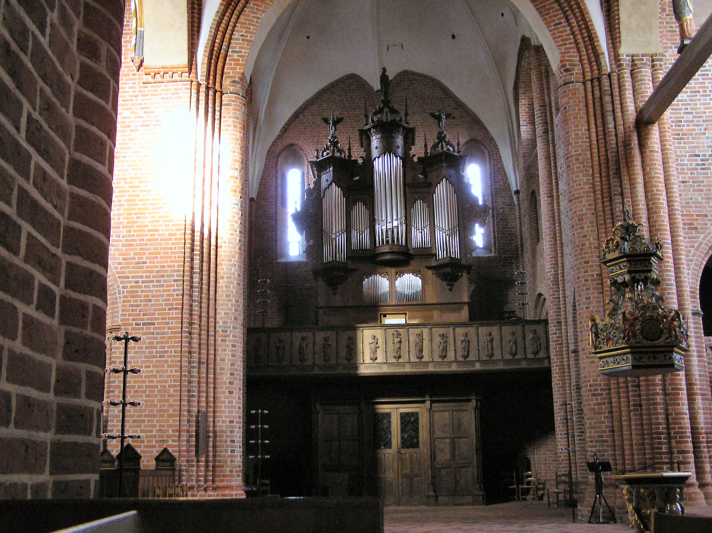 The organ in the church of Løgumkloster, Denmark.